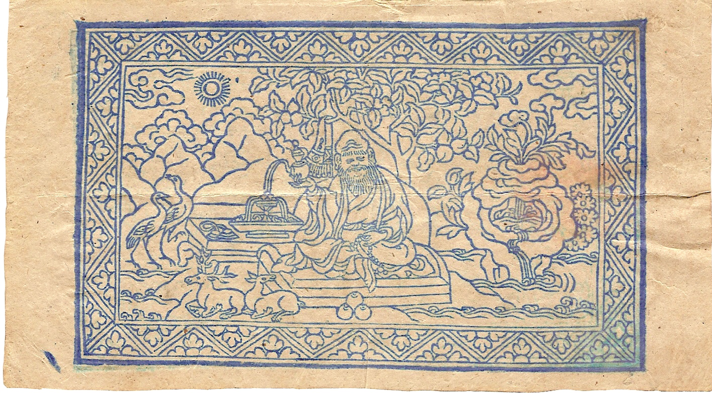 Tibetan 50 tam banknote, dated T.E. 1659 (= AD 1913) bacvkside